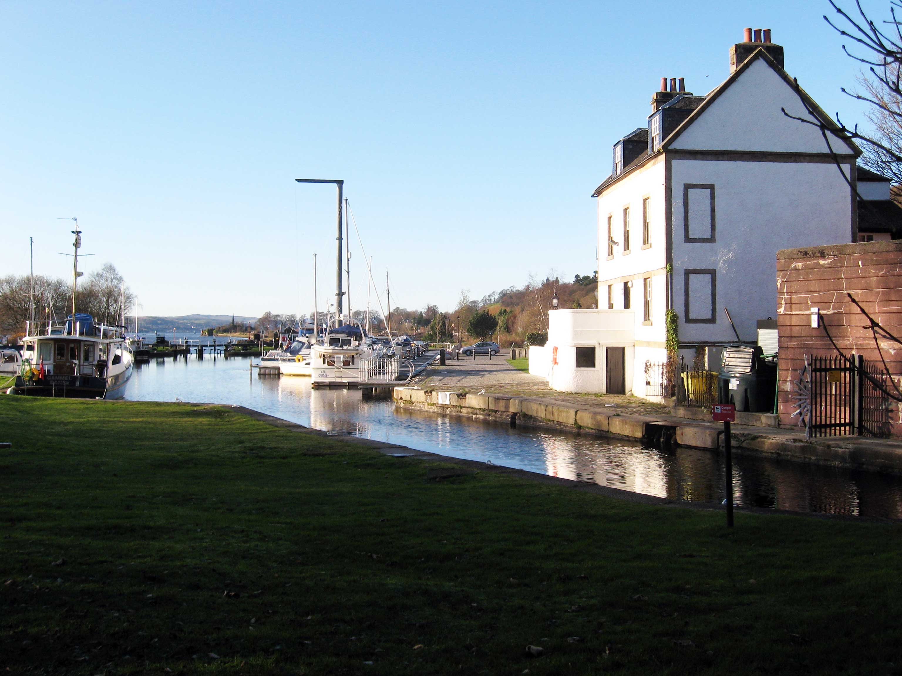 Bowling Basin, on the Forth and Clyde Canal at Bowling, West Dunbartonshire, looking towards the sea lock and the River Clyde.